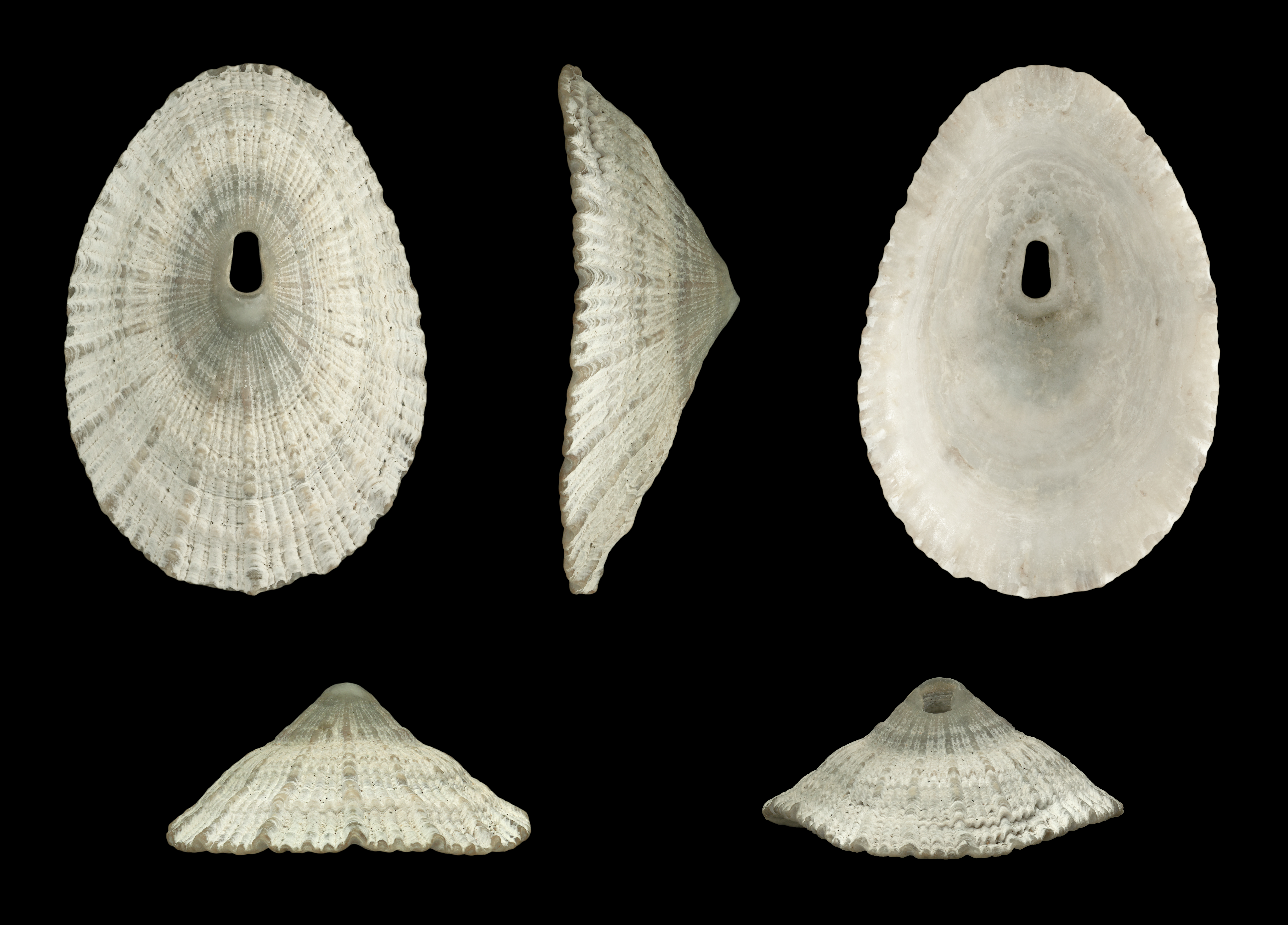 Italian Keyhole Limpet; Length 4.2 cm; Originating from Granville, France; Shell of own collection, therefore not geocoded.